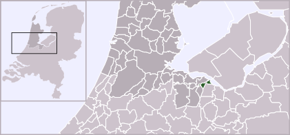 Locator map of Dutch municipalities in Noord-Holland (LocatieBlaricum.png)